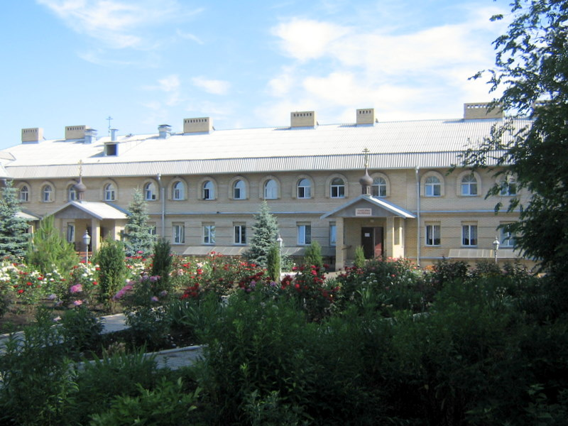 Sainted-Uspenskiy Mikolo-Vasilivskiy monastery